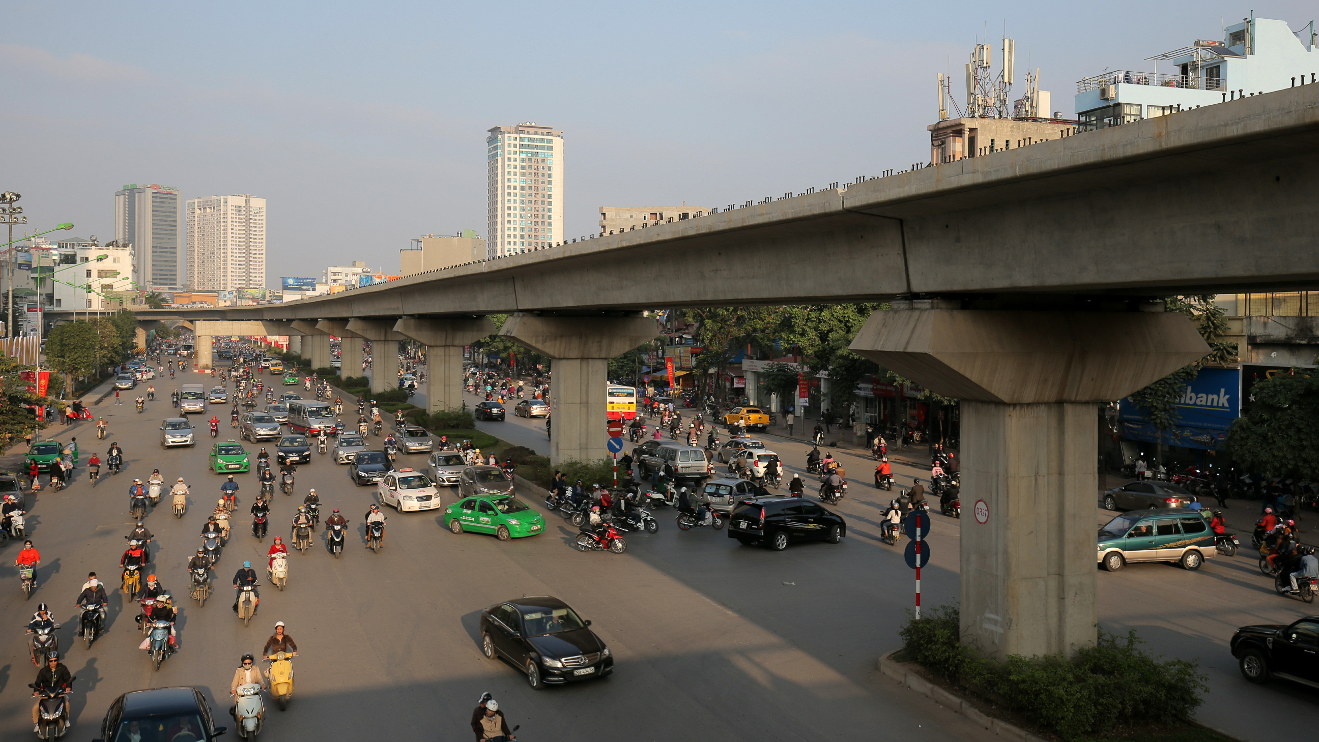 Hanoi metro line 2 (Cát Linh - Hà Đông) construction works